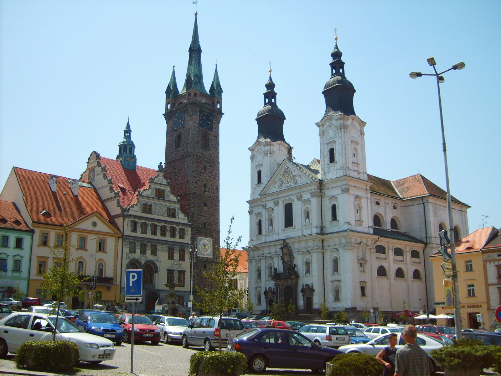 Square of Klatovy